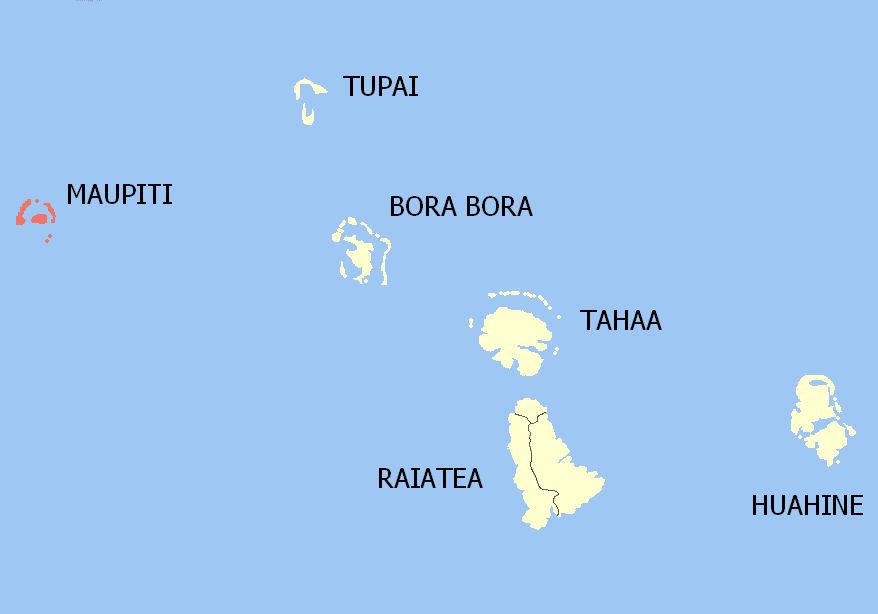 Created file myself. Map showing the commune of Maupiti, French Polynesia.